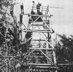 Original wooden fire tower built by members of Balsam Lake Club on Balsam Lake Mountain in New York's Catskill range